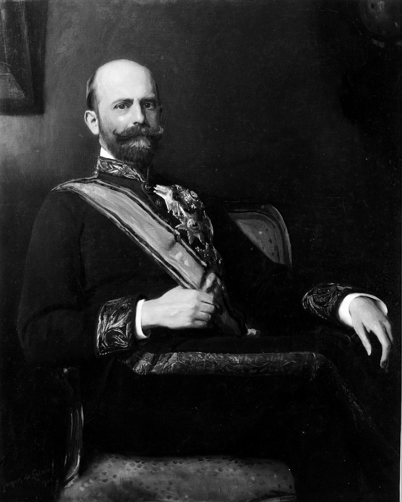 Portret van graaf Henri de Merode, voorzitter van de Senaat.